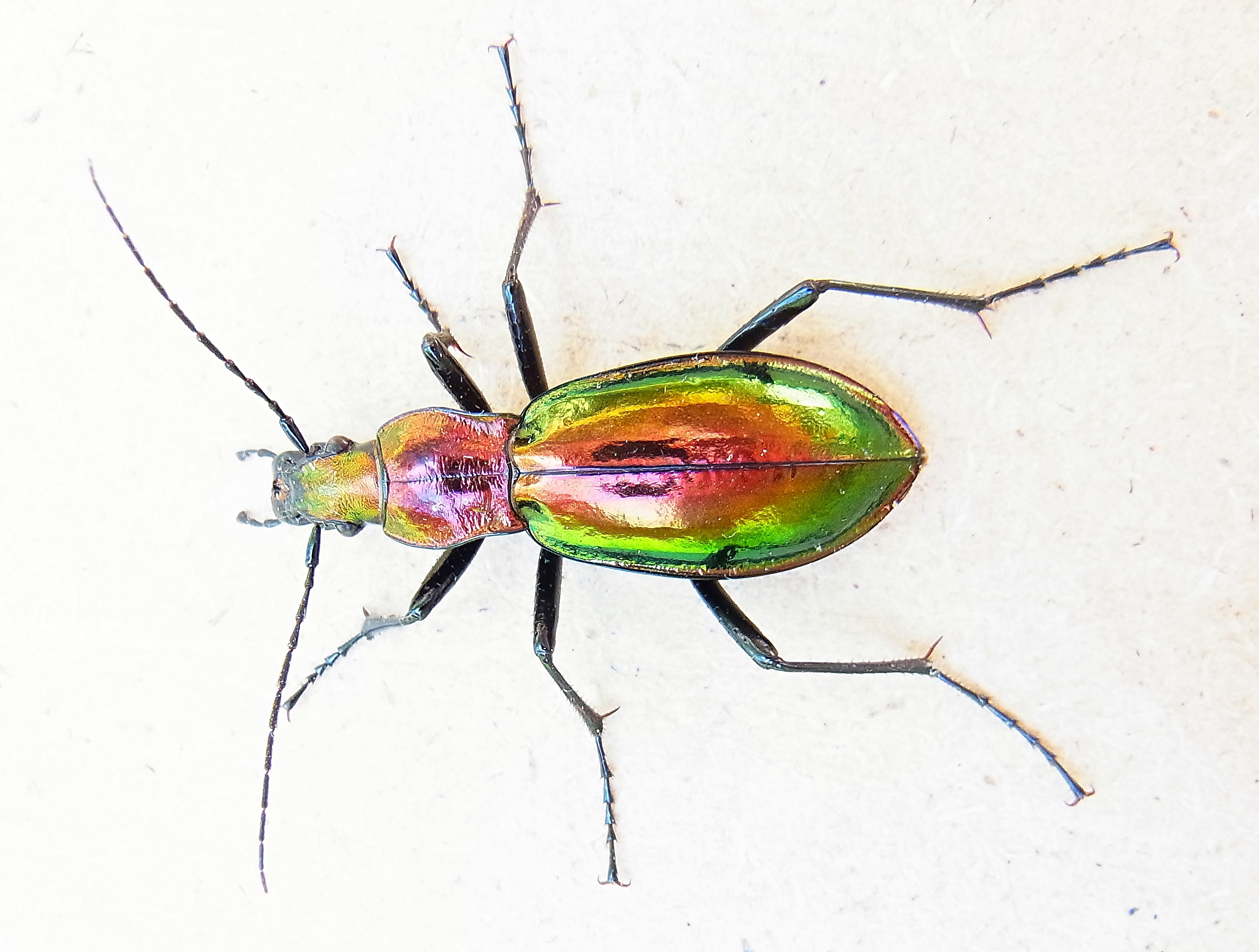 Chrysocarabus splendens from Northern Spain, near Errezil, south of Donostia-San Sebastián